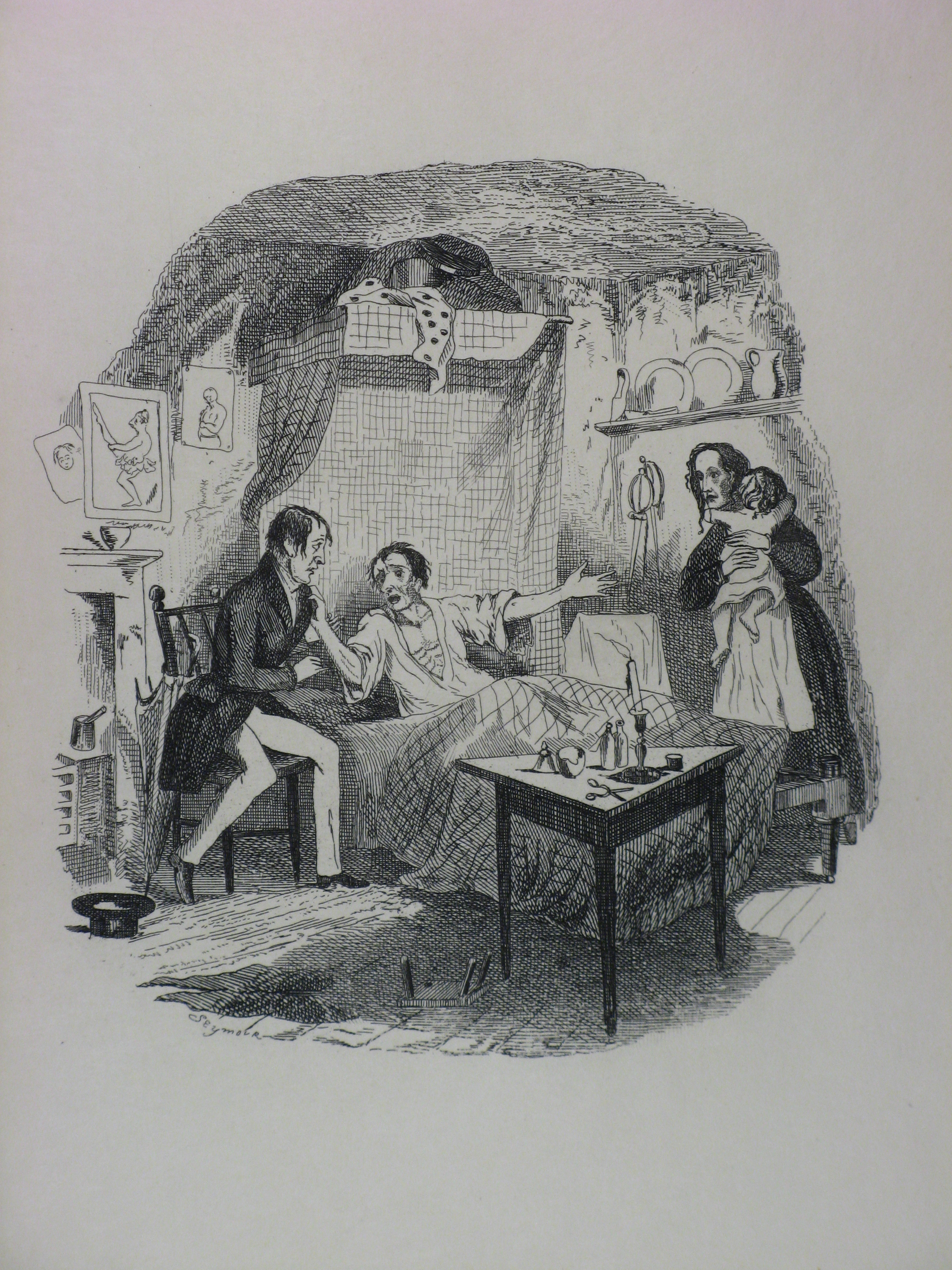 A photograph of an engraving in The Writings of Charles Dickens volume 1, The Pickwick Club, titled "The Dying Clown".